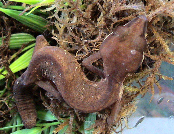 Imported from en: Original description: Photographer: LA Dawson Cat Gecko, Aeluroscalabotes felinus (a gecko)